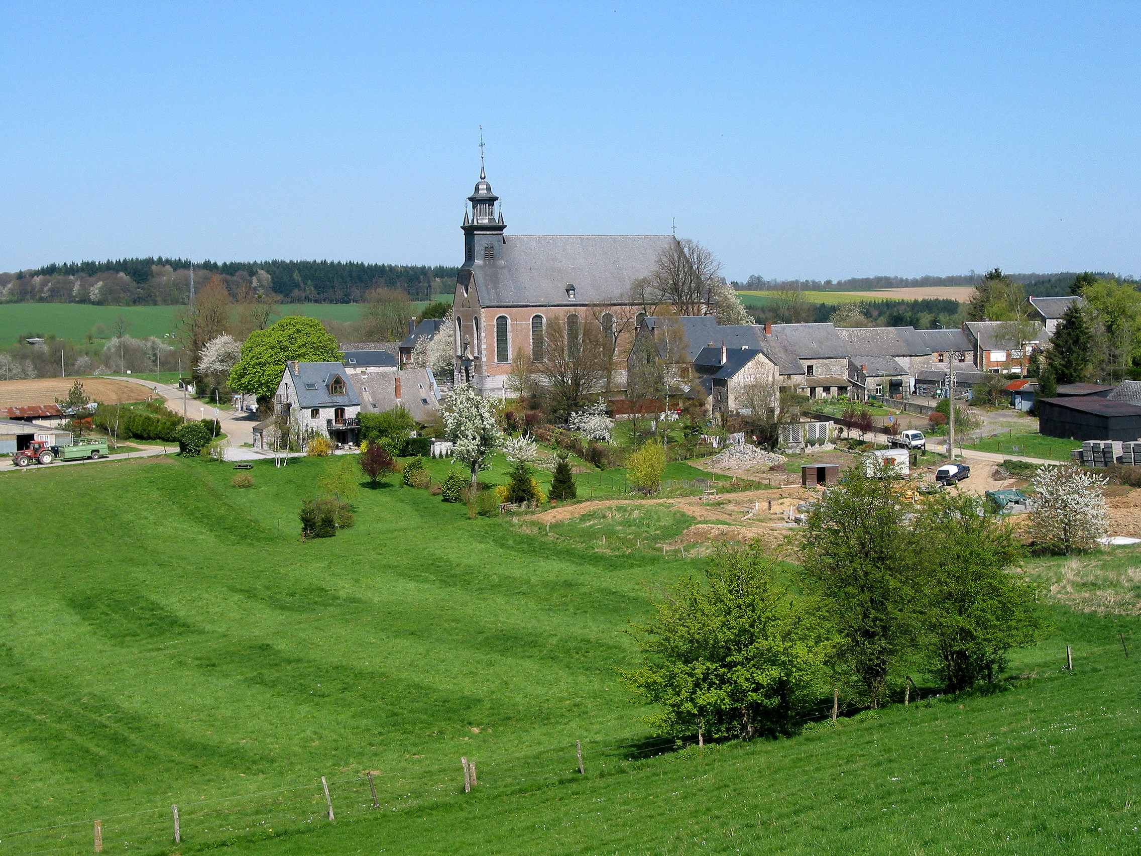 Foy-Notre-Dame (Belgium), the Nativity of Our-lady church (1623).